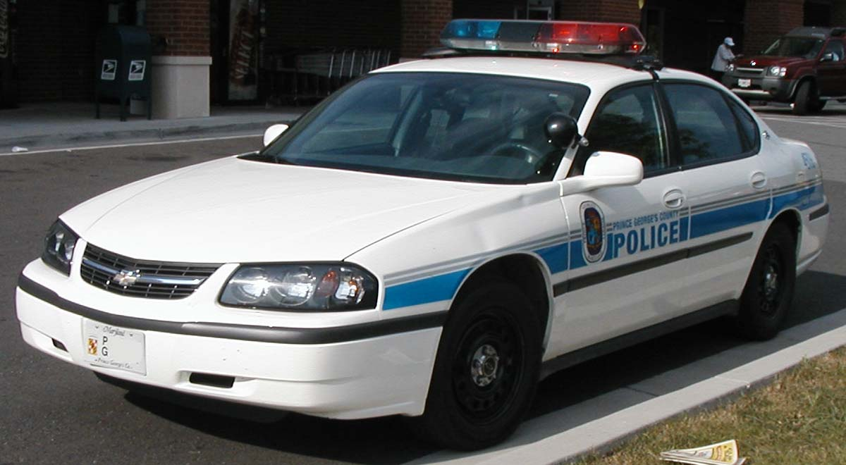 A 2000-2005 Chevrolet Impala 9C1 of the Prince George's County, Maryland Police Department, photographed in the United States of America in August 2006.